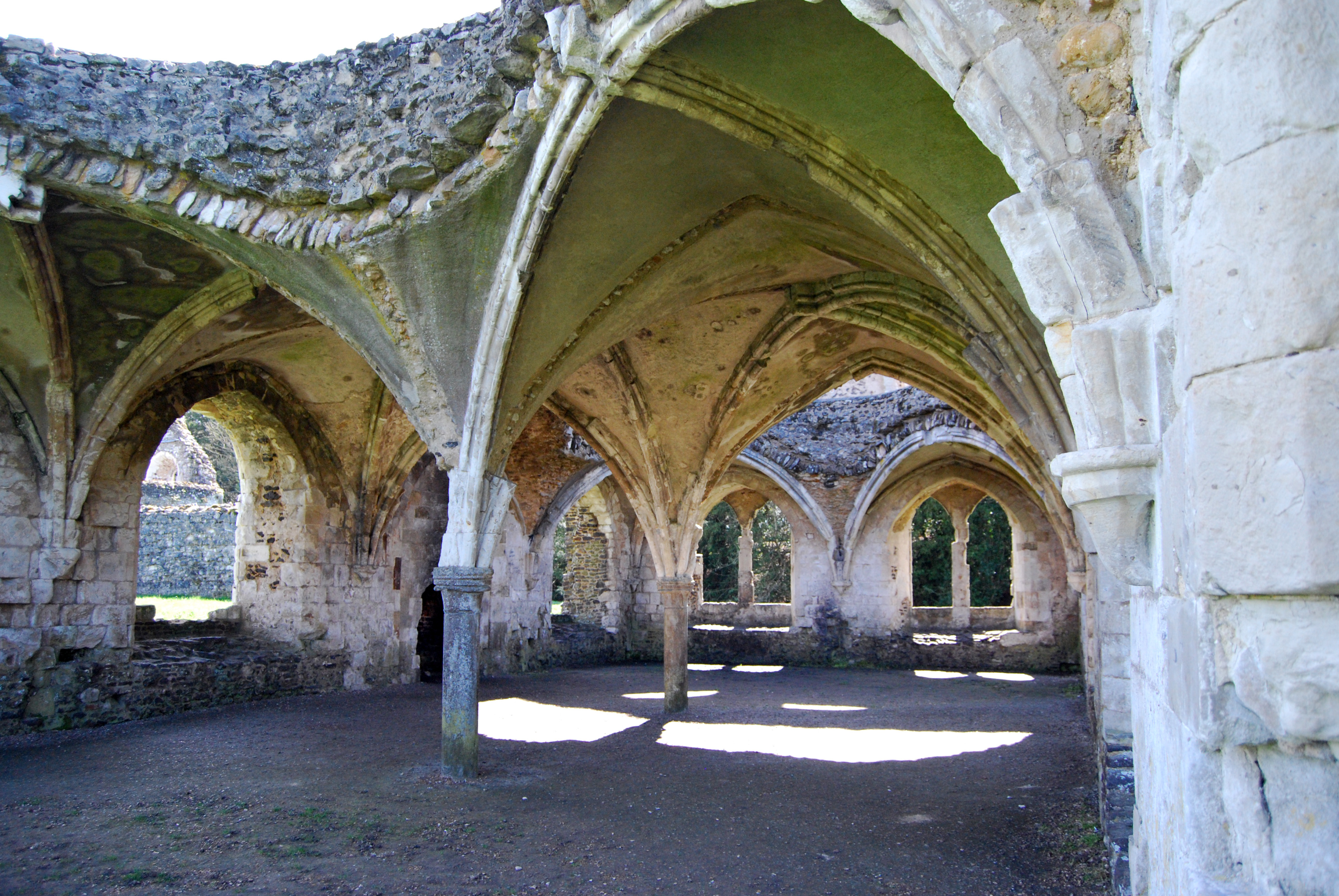 Image of the remains of the undercroft of the lay brothers' refectory at Waverley Abbey, near Farnham in Surrey, England